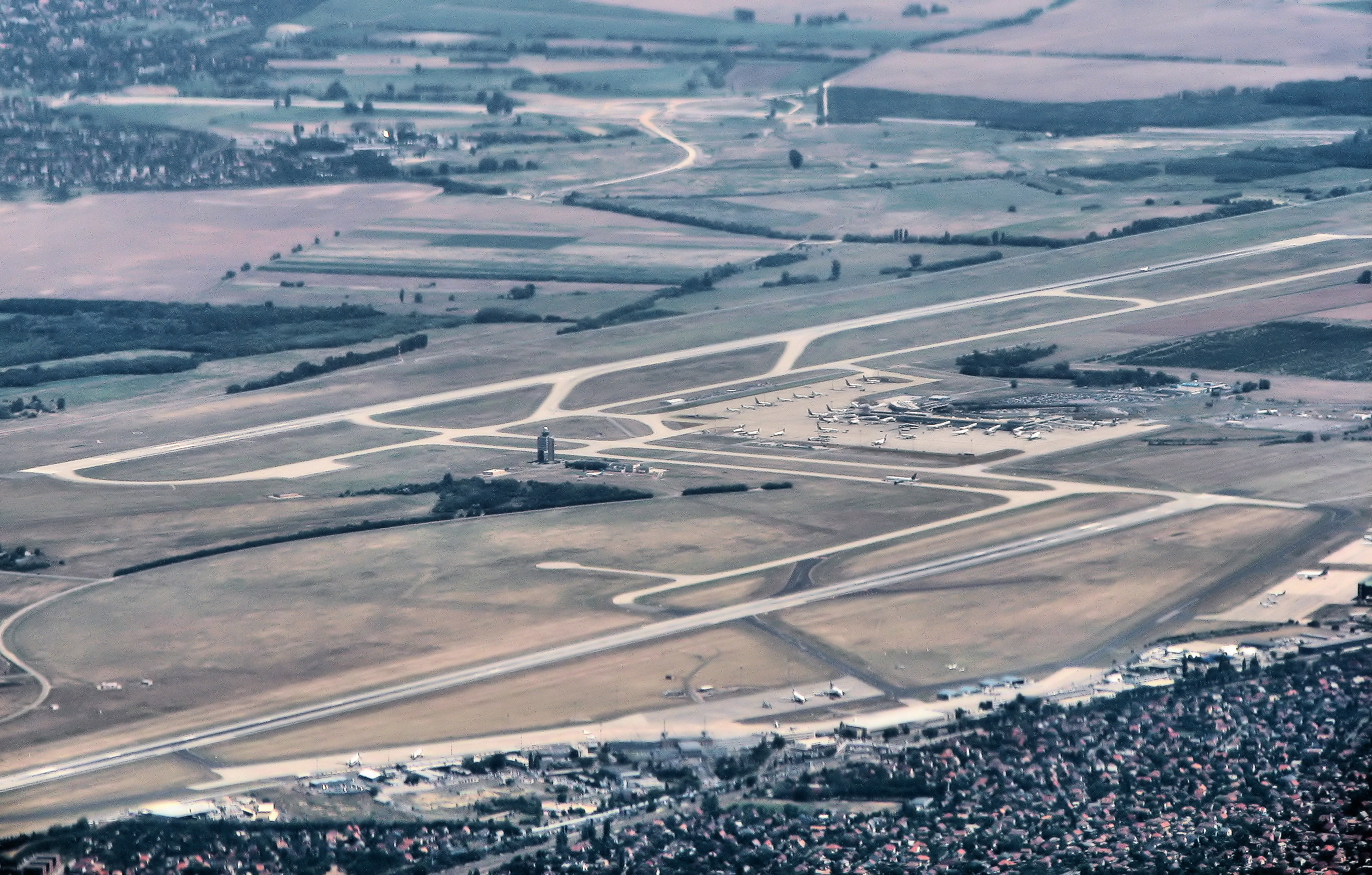 Budapest Ferihegy International Airport from an airplane. Terminal 2 is in the middle on the right, while the old Terminal 1 is at the bottom on the left.